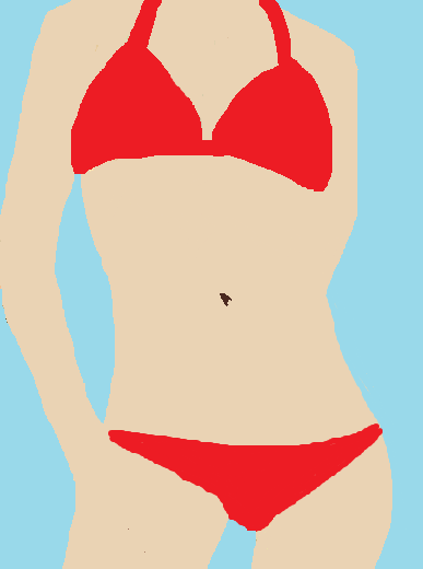 Red bikini drawing.